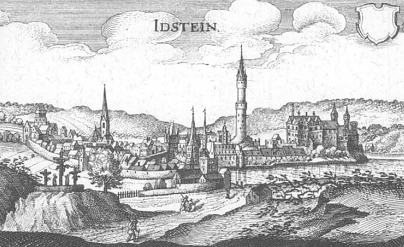 This is a scan of the historical document: Title: Idstein - Topographia Hassiae language: german